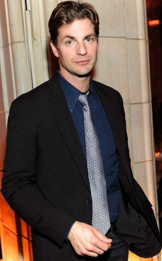 Gale Harold at the Plaza Hotel, NYC, 2012